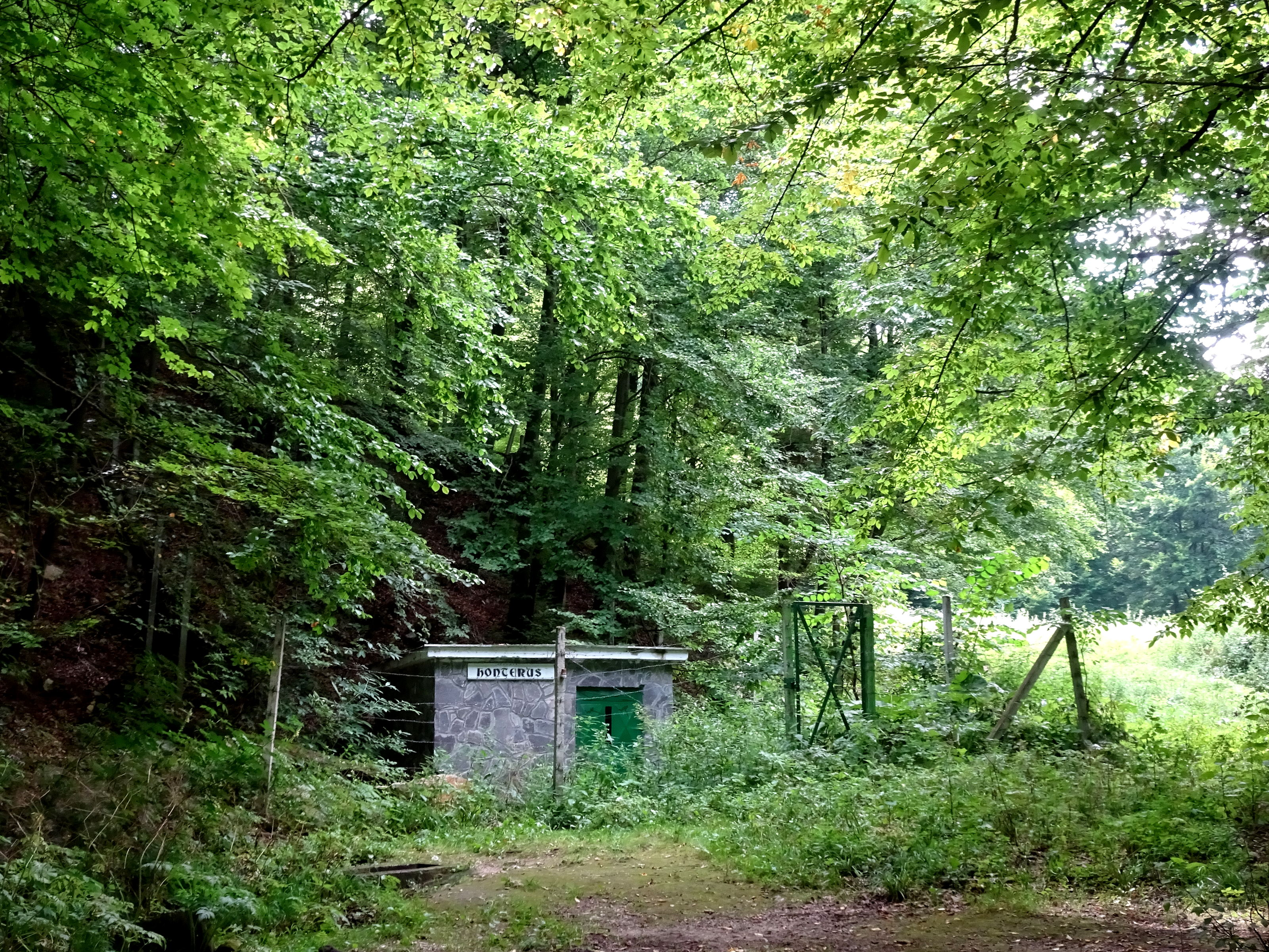 Honterus spring near Brașov, Romania; summer